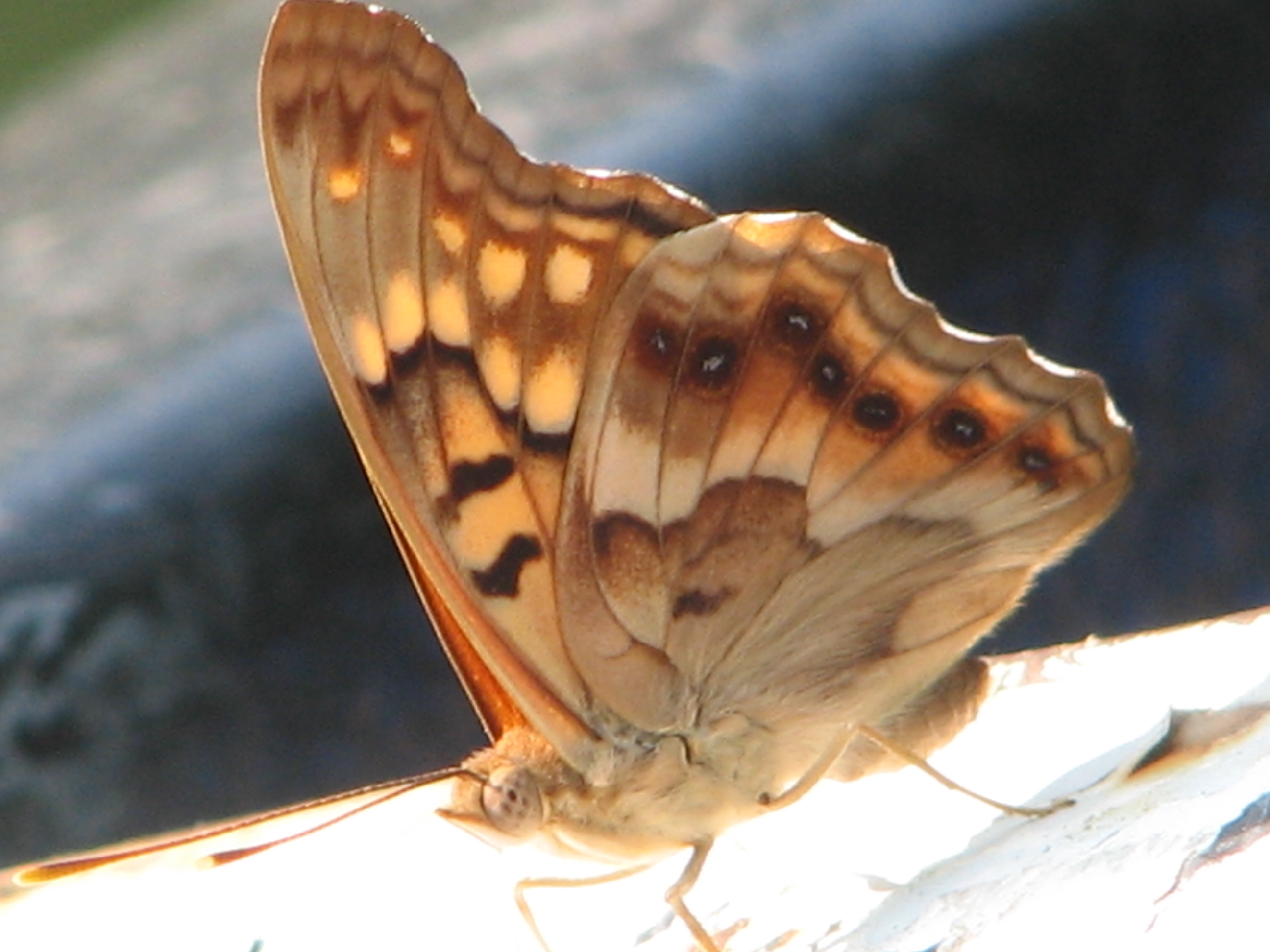 Asterocampa clyton at Congaree National Park, South Carolina, USA